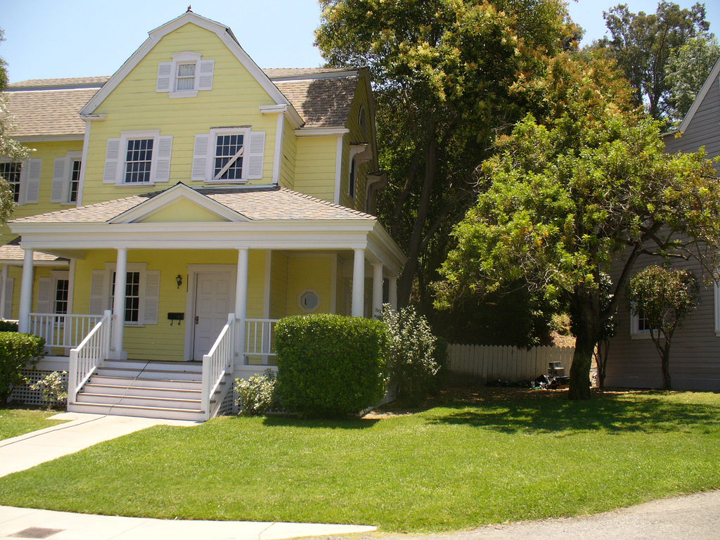 Corner House on Wisteria Lane, film set at Universal Studios Hollywood.